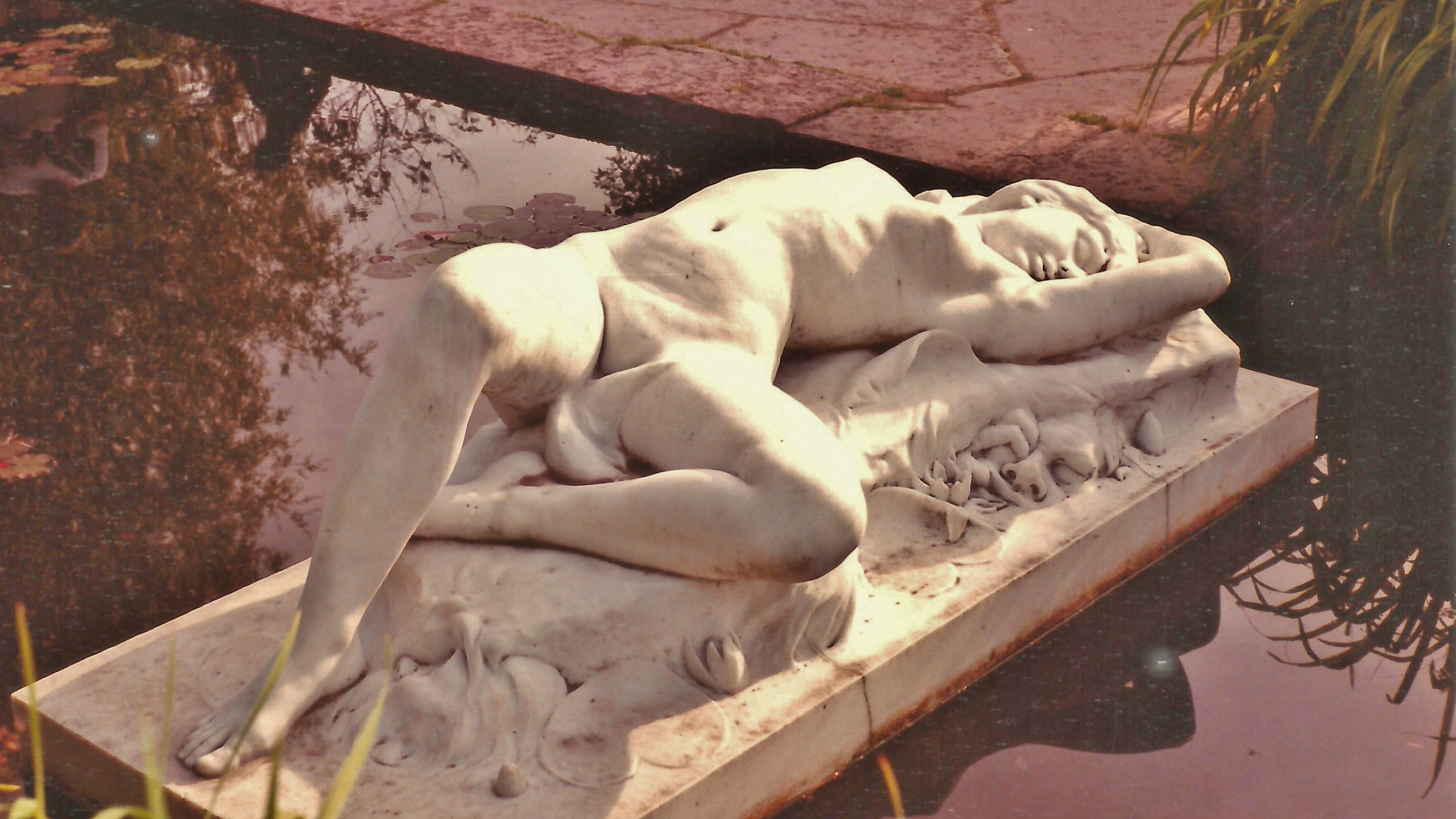 Statue by Swedish sculptor Per Hasselberg, Stockholm 1892, copy from 1953 in marble by Giovanni Ardini (Italy) placed in Rottneros Park near Sunne in Värmland/Sweden